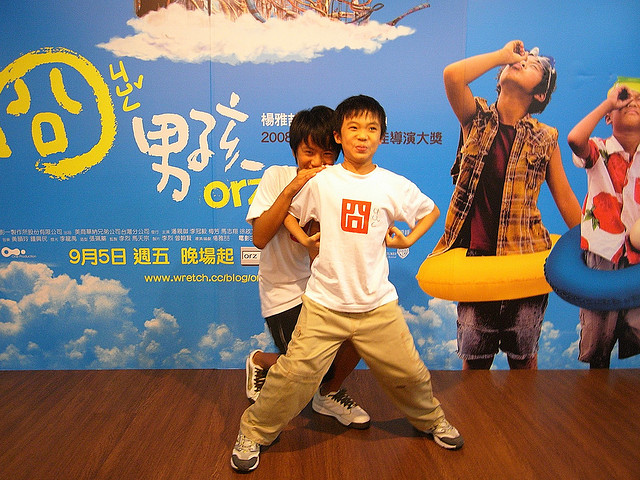 Two boy child stars of the Taiwanese film "ORZboyz".